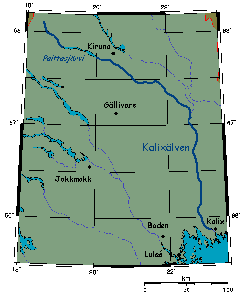 Map of the river Kalixälven, Sweden (in the upper left corner is Norway, in the upper right corner Finland) map made by User:Nordelch with help of